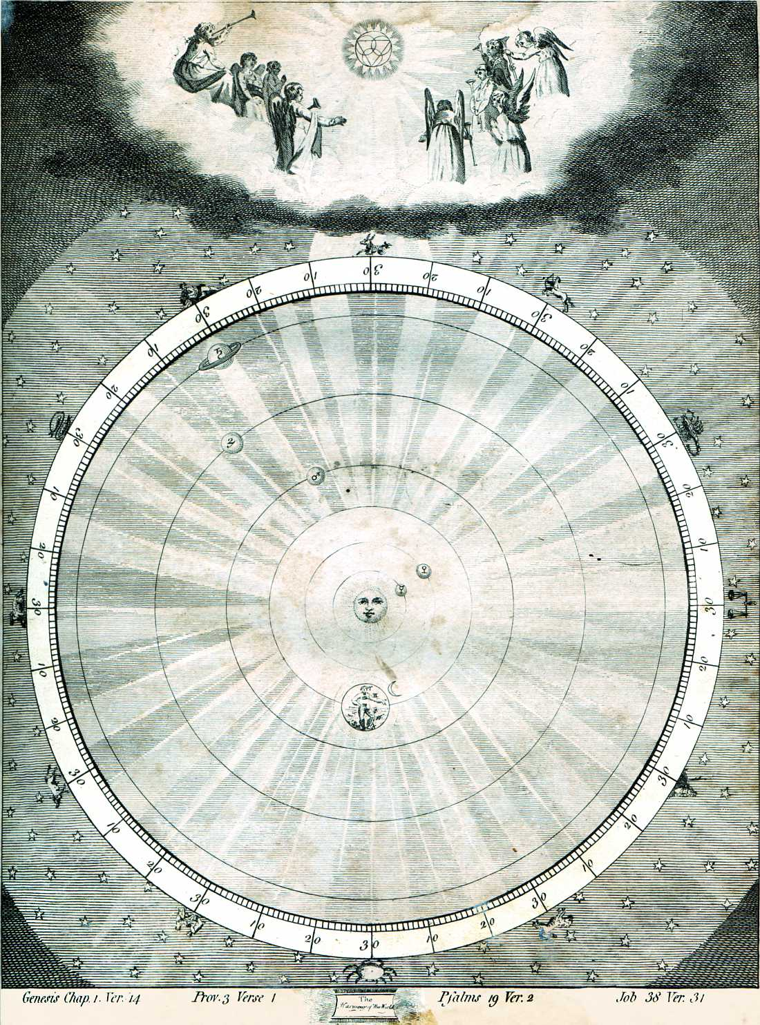 Harmony of the World, a heliocentric universe showing the planets' correct distances and the zodiacal signs with Aries beginning at the horizon and the other signs following in correct order. At the bottom are various references to biblical passages. These are as follows: Genesis 1:14 And God said, “Let there be lights in the firmament of the heavens to separate the day from the night; and let them be for signs and for seasons and for days and years, and let them be lights in the firmament of the heavens to give light upon the earth.” And it was so. Proverbs 3:1 My son, do not forget my teaching, but let your heart keep my commandments; for length of days and years of life and abundant welfare will they give you. Psalm 19:2 The heavens are telling the glory of God; and the firmament proclaims his handiwork. Day to day pours forth speech, and night to night declares knowledge. Job 38:31 Can you bind the chains of the Plei’ades, or loose the cords of Orion? Can you lead forth the Maz’zaroth in their season, or can you guide the Bear with its children? Do you know the ordinances of the heavens? Can you establish their rule on the earth? From Ebenezer Sibly. A new and complete illustration of the occult sciences: or, The art of foretelling future events and contingencies (p. 60)